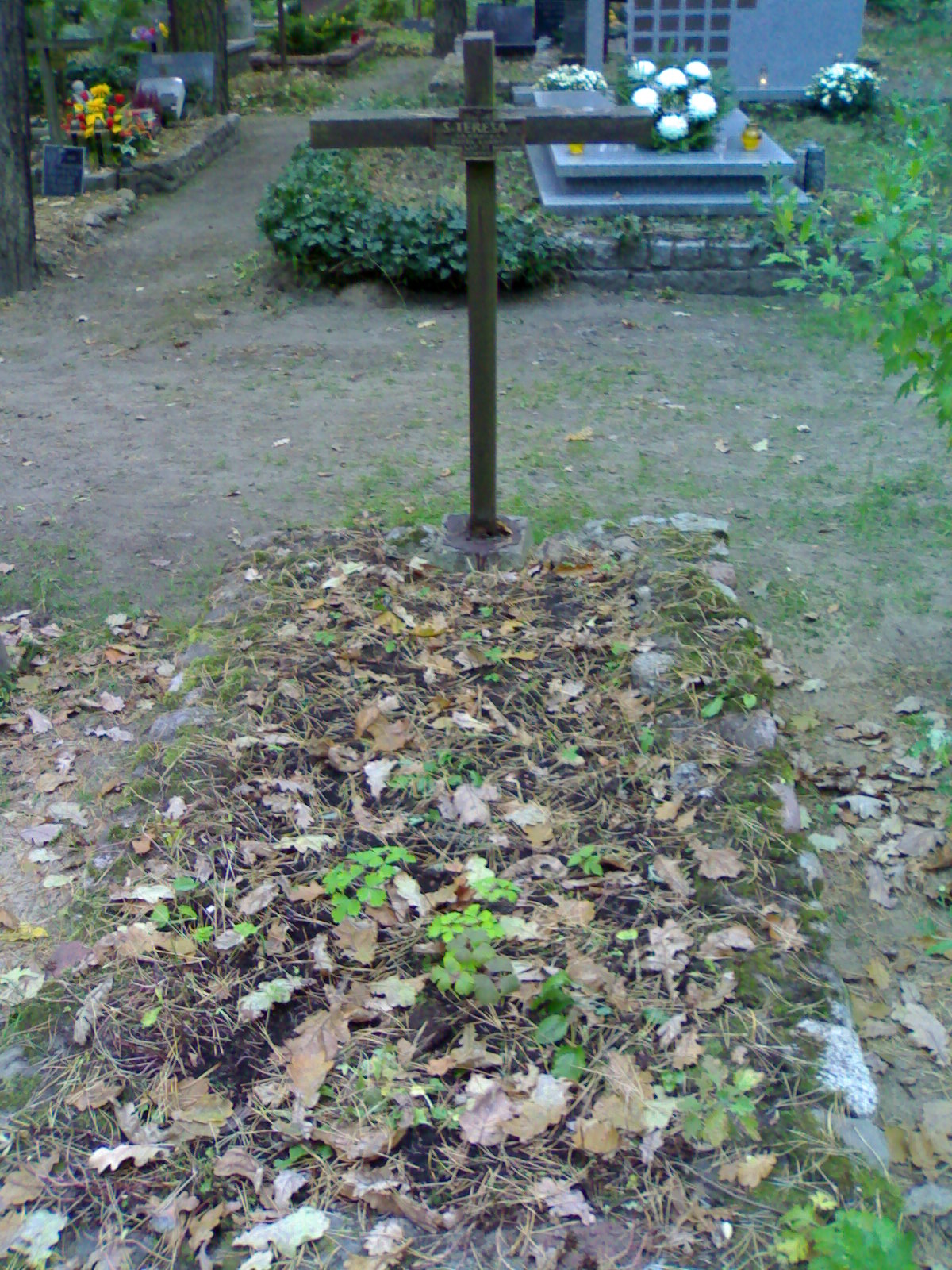 Landy's grave in Laski.